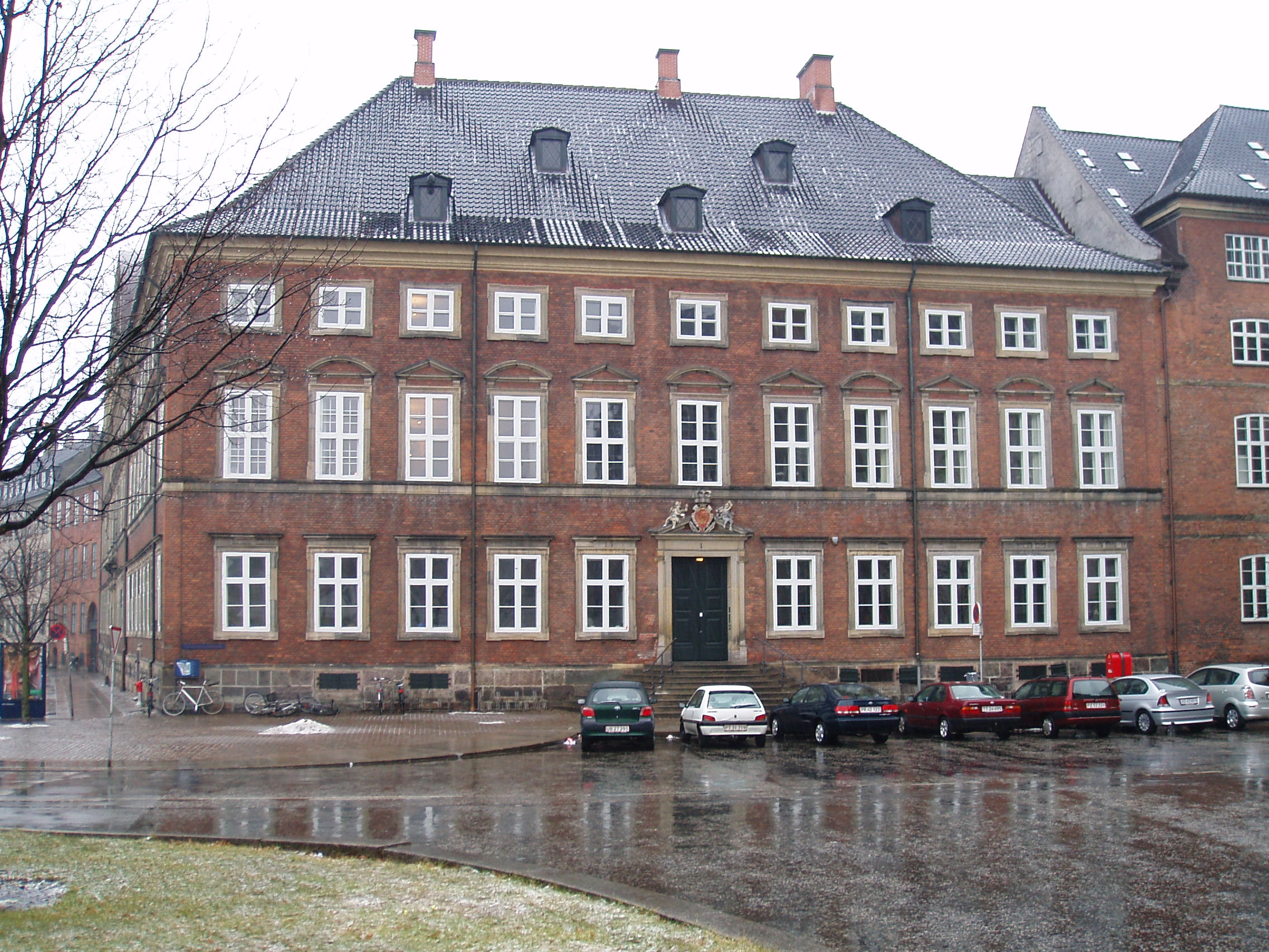 Danish Ministry of Finances.